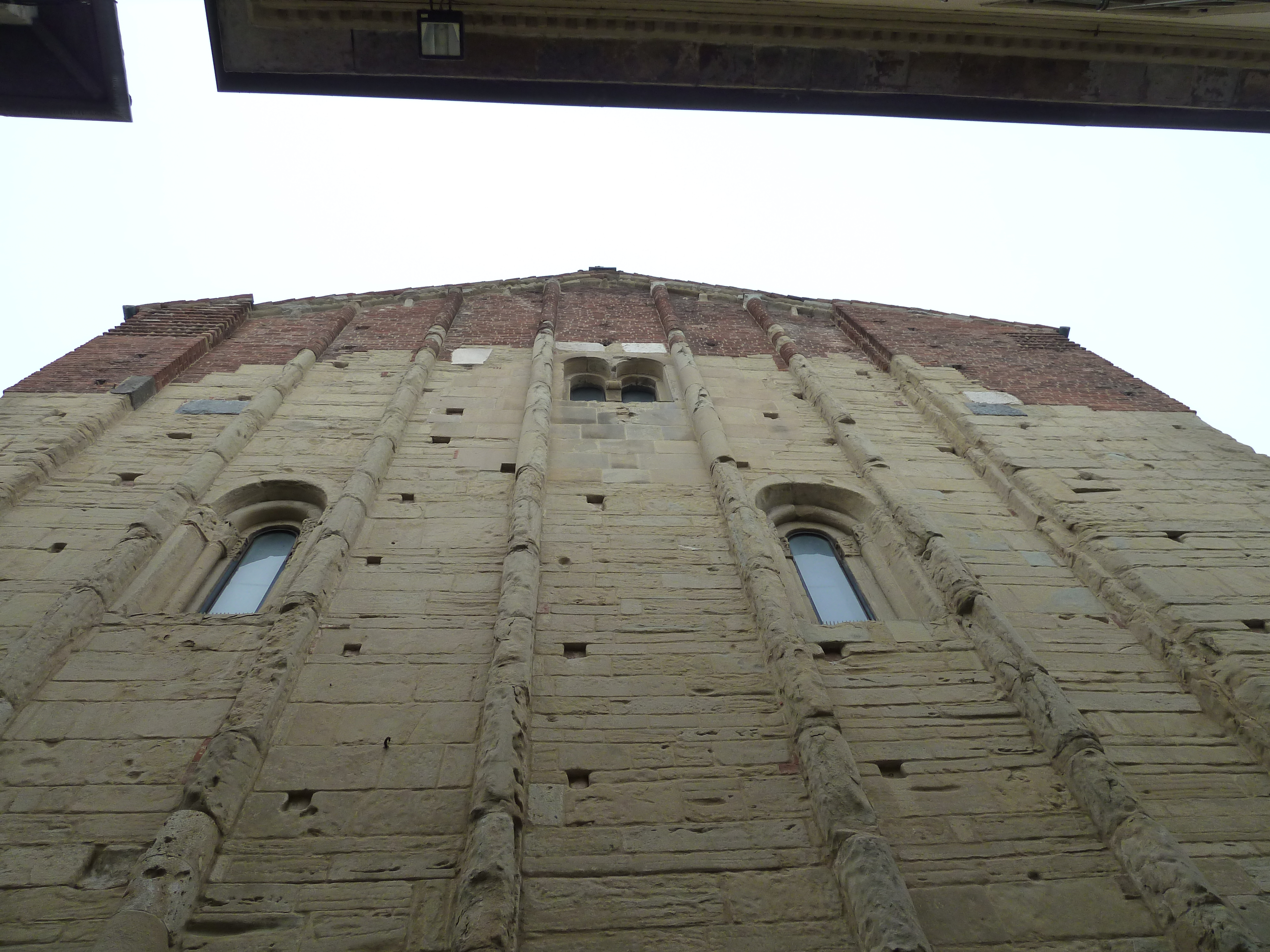 Church of San Michele (Pavia, Lombardy). South Transept. Facade.